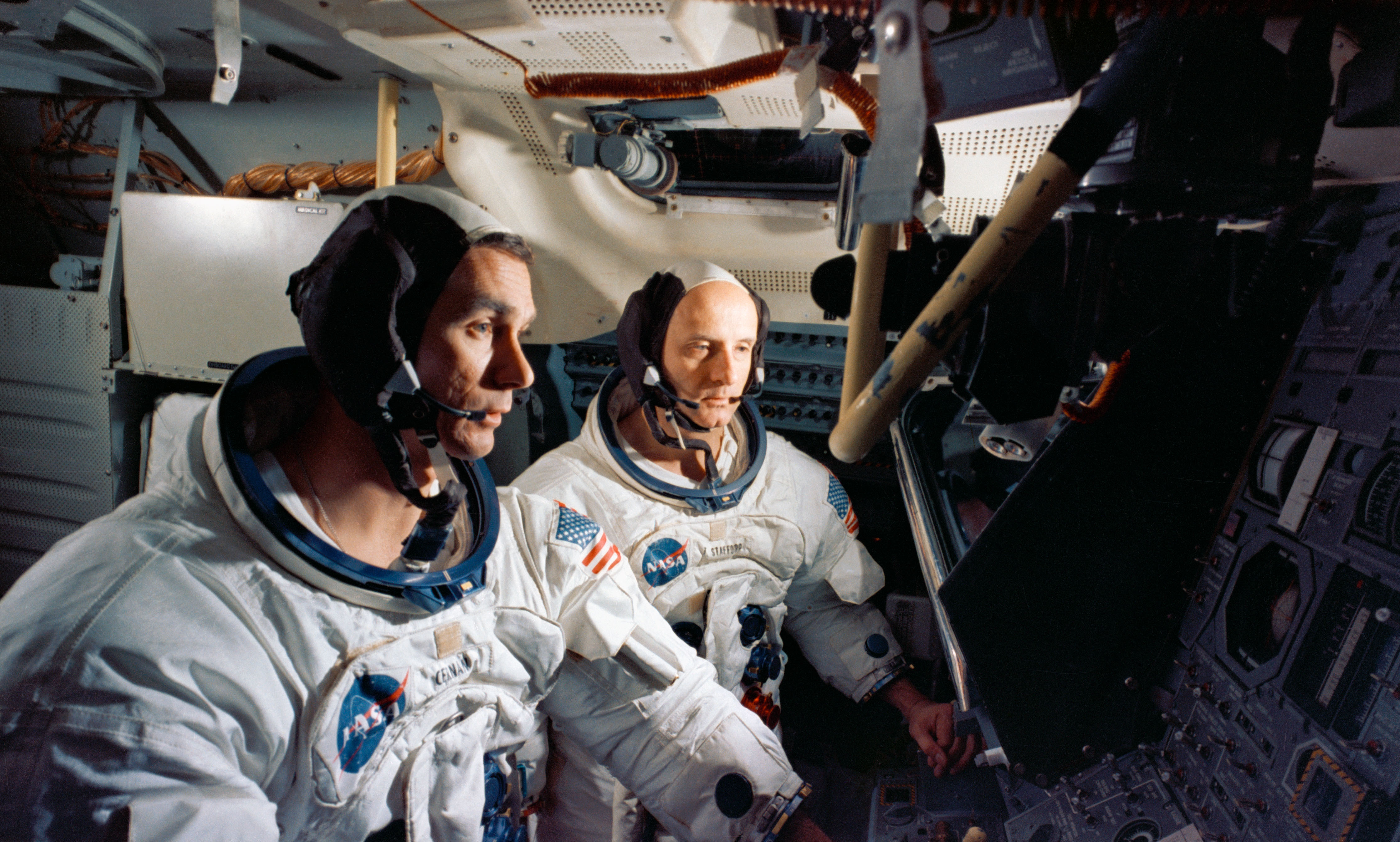 S69-32615 (3 April 1969) - Two members of the Apollo 10 prime crew participate in simulation activity at the Kennedy Space Center during preparations for their scheduled lunar orbit mission. Astronaut Thomas P. Stafford, commander, is in the background; and in the foreground is astronaut Eugene A. Cernan, lunar module pilot. The two crewmen are in the Lunar Module Mission Simulator.